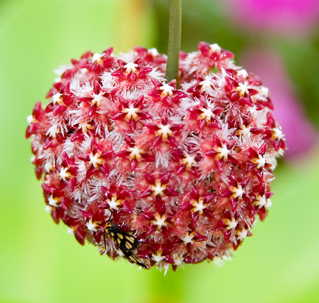 Hoya mindorensis for the article "Hoya"